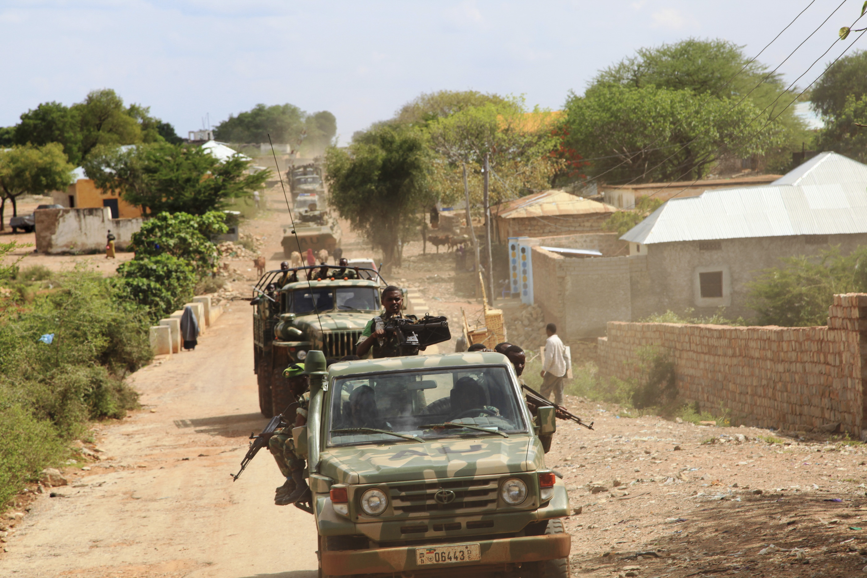 AMISOM reinforcement convoy on the Baidoa Mogadishu Road on 17th April 2014. AU UN IST PHOTO / Mahamud Hassan